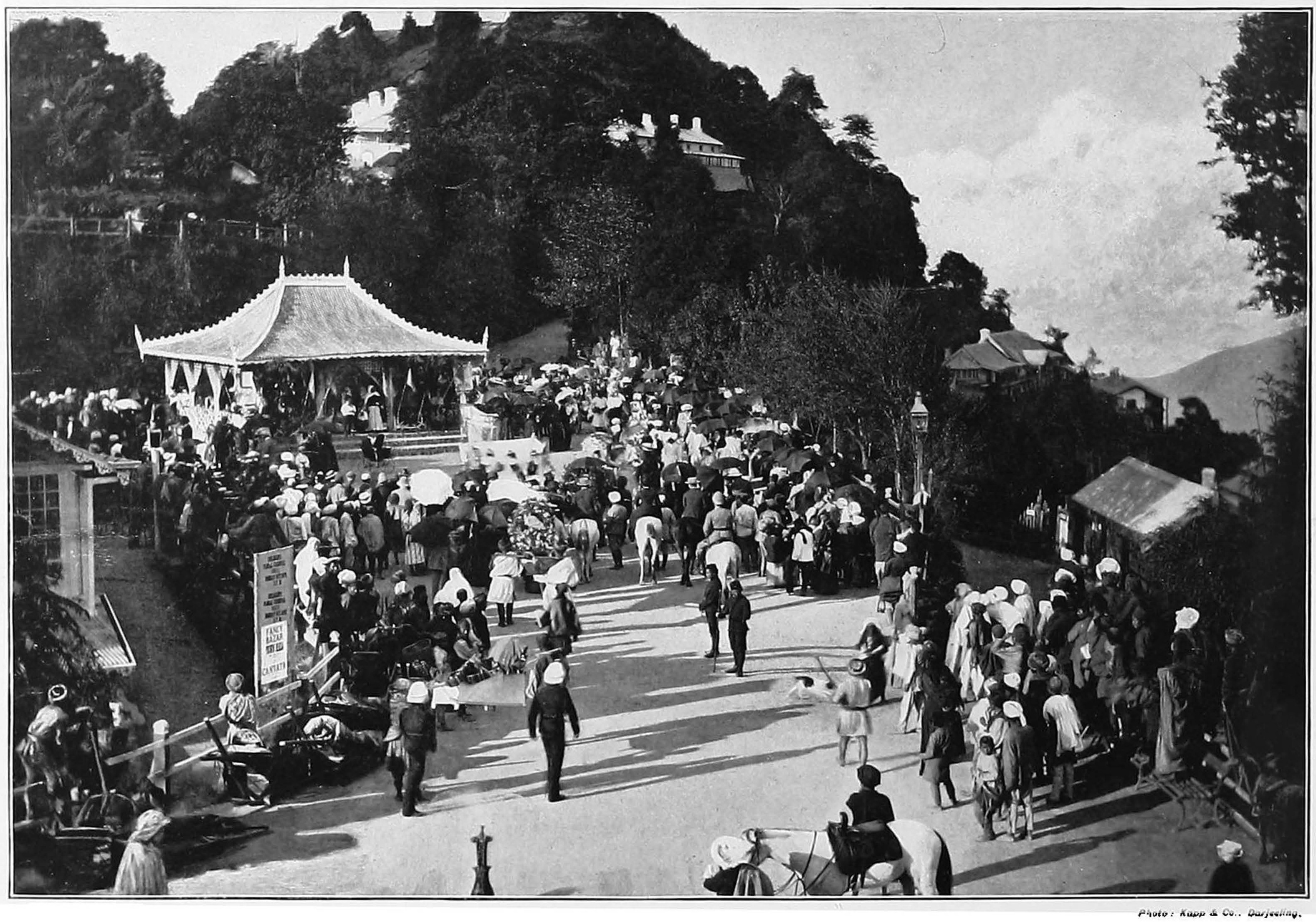 THE "CHOWRASTA," DARJEELING. The scene which is here depicted is a Children's Floral Fete at Darjeeling, The children are assembling on the Chowrasta - or " Four Roads "—before proceeding to the "Shrubbery." The junction of Ihe" Calcutta and Auckland Roads" with the two " Malls" gives its name to the Chowrasta. which is the fashionable place of assembly for residents and visitors in the charming mountain station of Darjeeling; Darjeeling, which is now connected with the plains by a narrow Range railway, is not only a health resort for those who have become exhausted or enfeebled by work in the burning offices of Calcutta, but is the centre of the flourishing district in which the famous Darjeeling teas are grown. Among the throng seen in the picture are British soldiers in their sun helmets, and a couple of Gurkka soldiers recruited in the neighbouring State of Nepaul.